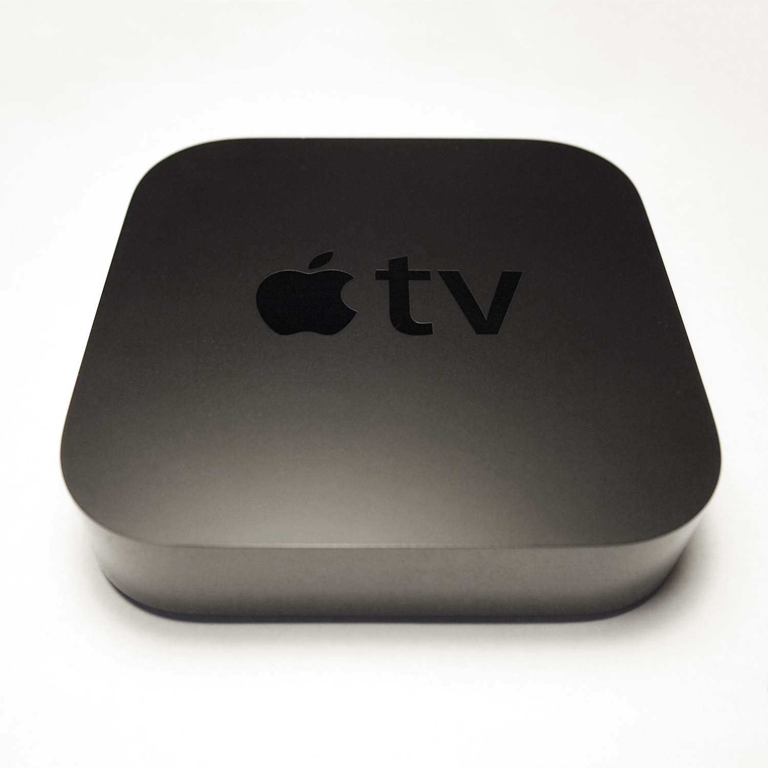 The 2nd generation Apple TV 中文（台灣）: 第二代 Apple TV